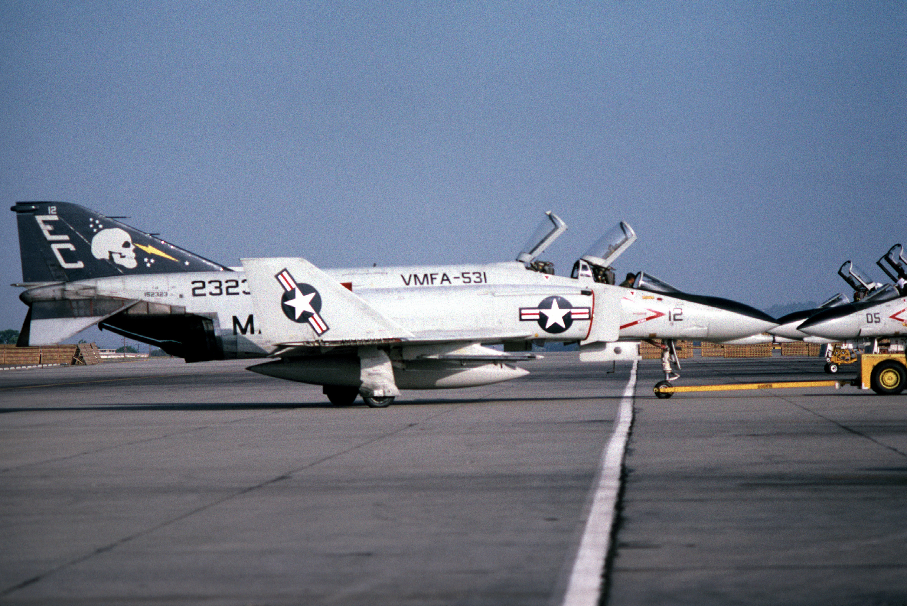 A McDonnell Douglas F-4N Phantom II (BuNo 152323) from U.S. Marine Corps fighter-bomber squadron VMFA-531 Grey Ghosts being maneuvered into its parking area at the Marine Corps Air Station El Toro, California (USA), on 21 September 1982.